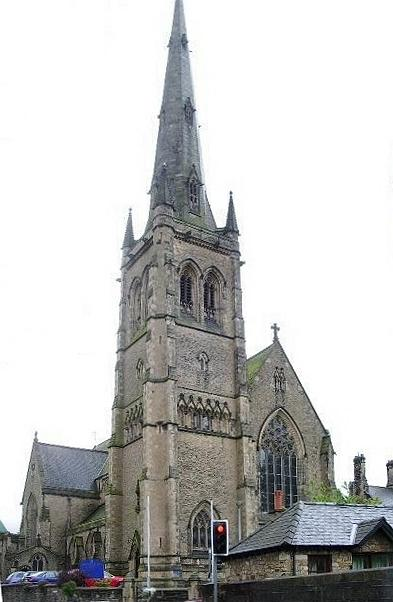 St Peter's Cathedral, Lancaster